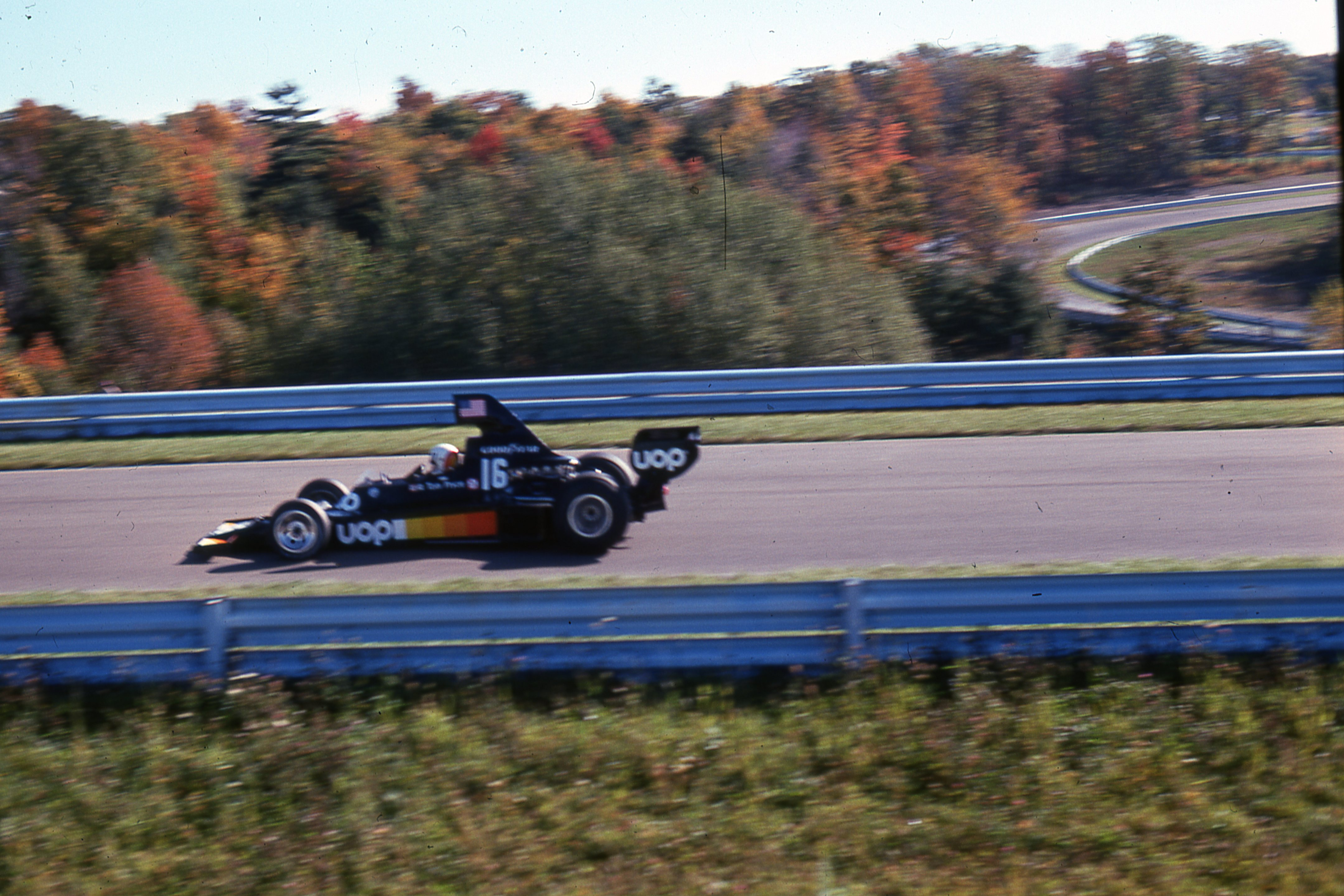 Formula 1 Grand Prix Watkins Glen 1975 16 Tom Pryce Shadow-Cosworth DN5